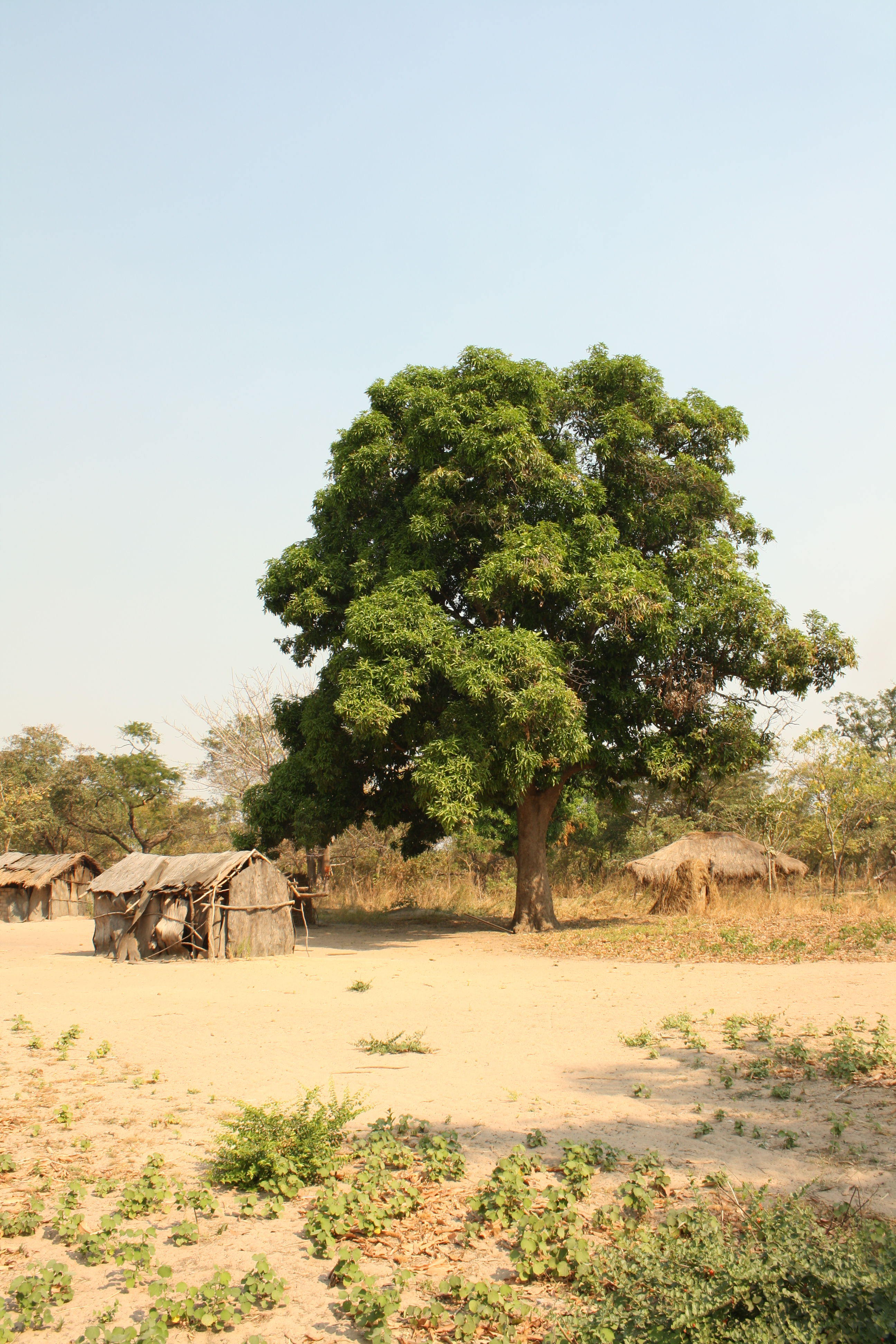 Village near Manono, Katanga, in the Democratic Republic of the Congo